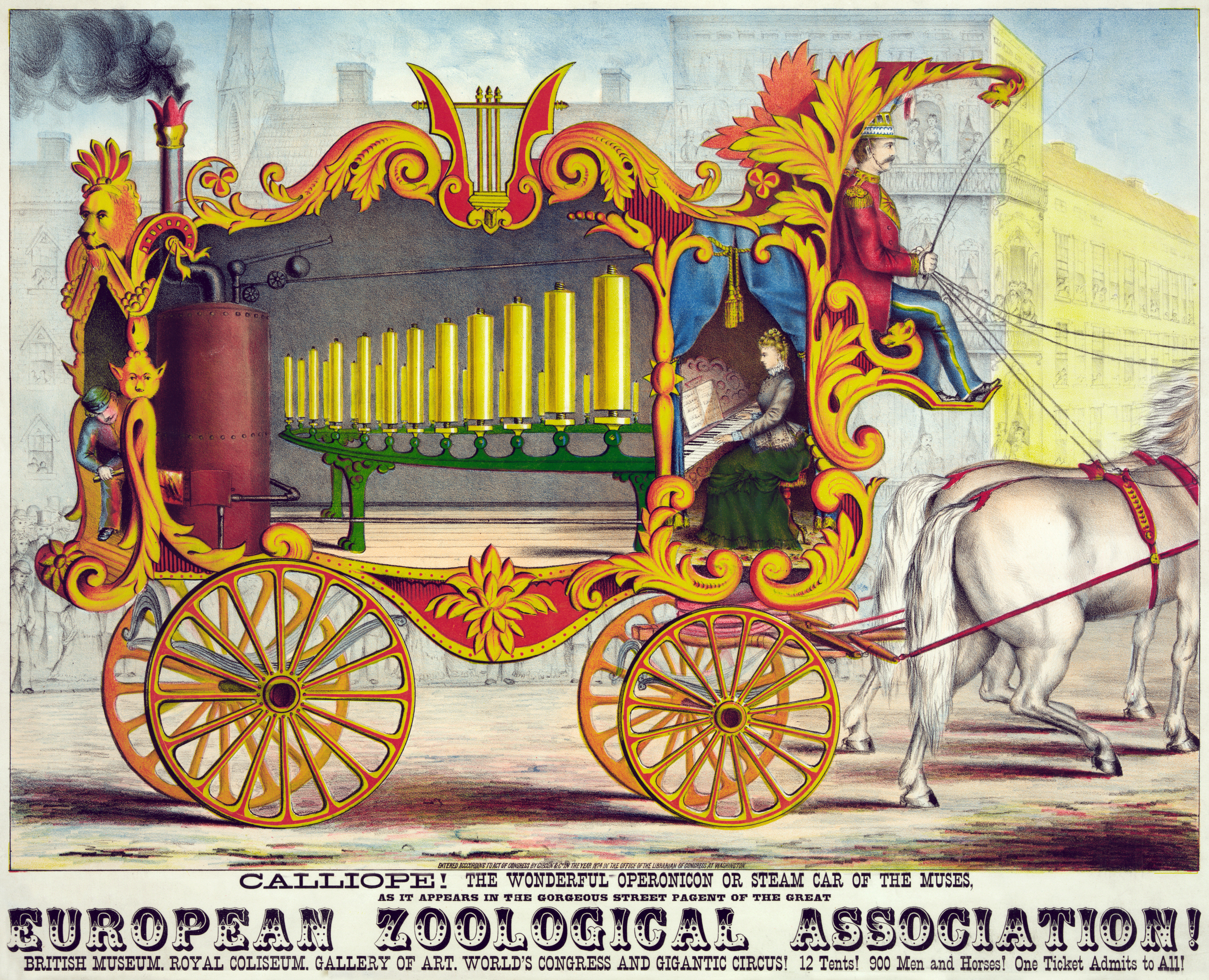 Calliope! The wonderful Operonicon or Steam Car of the Muses, as it appears in the gorgeous street pagent [sic] of the Great European Zoological Association! British Museum, Royal Coliseum, Gallery of Art, World's Congress and Gigantic Circus! 12 tents! 900 men and horses! One ticket admits to all!